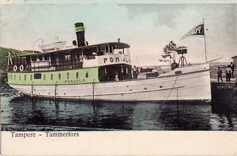 Coloured postcard of the Finnish S/S Pohjola, built 1905.